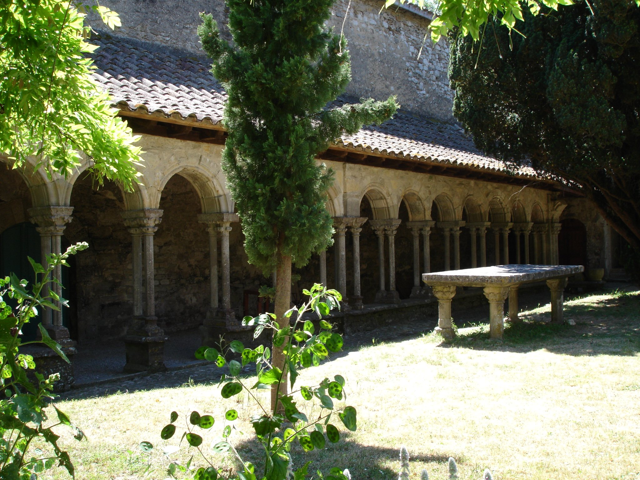 France, Aude (11), Villelongue Abbey